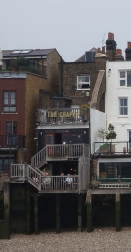 River side view of The Grapes public house in Limehouse, London.